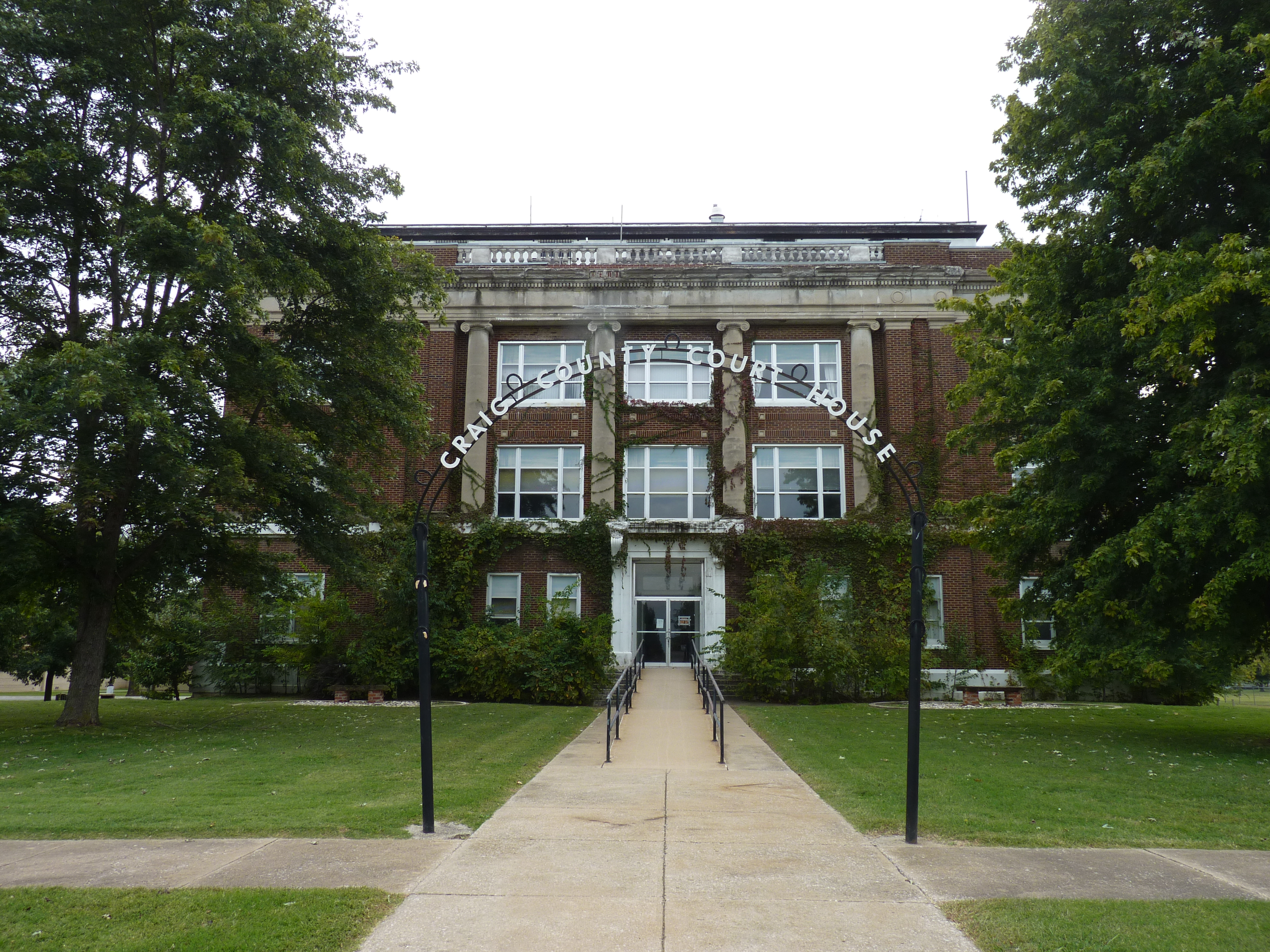 Old Craig County Courthouse in Vinita, Oklahoma